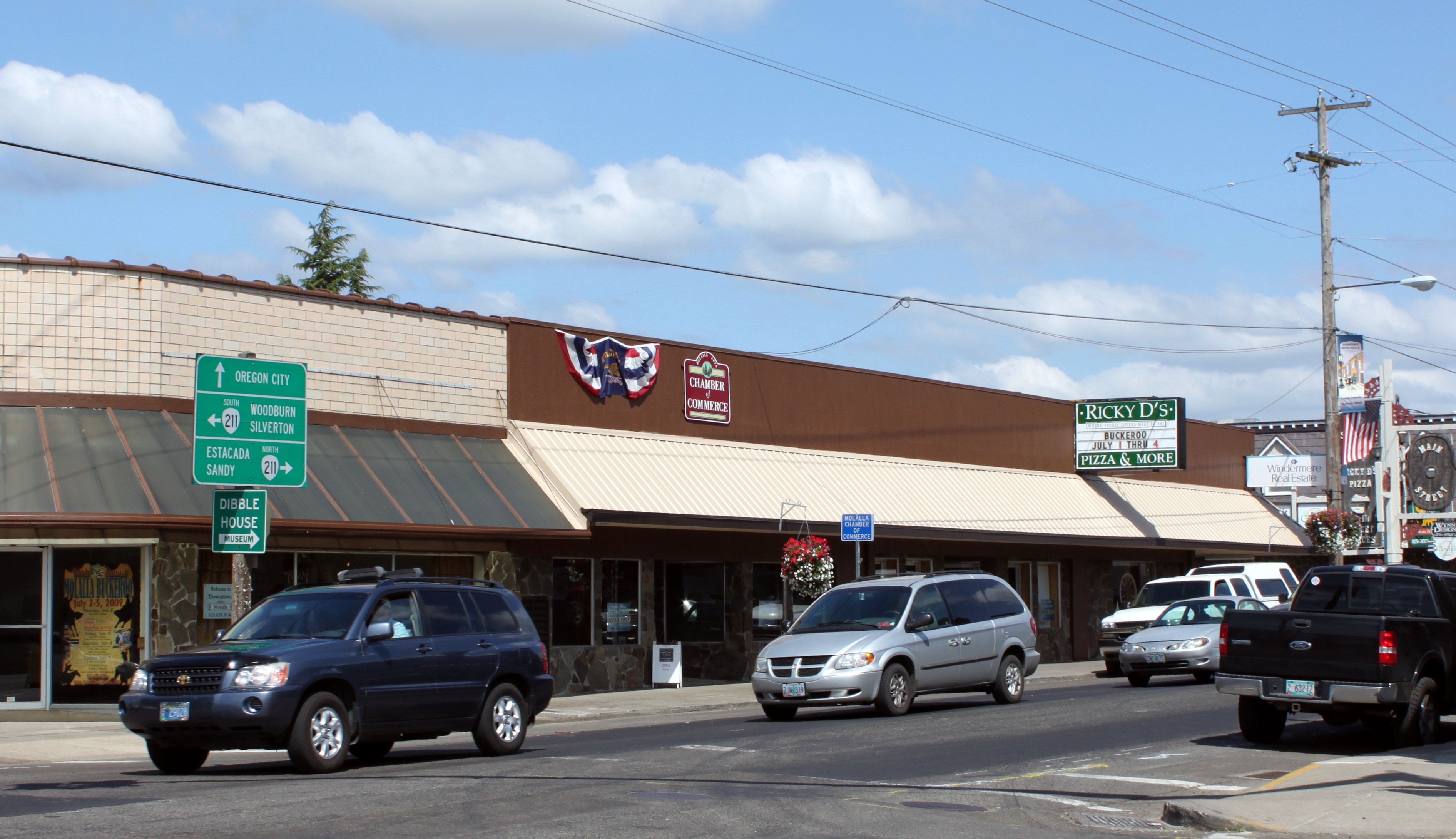 Main street in Molalla, Oregon.